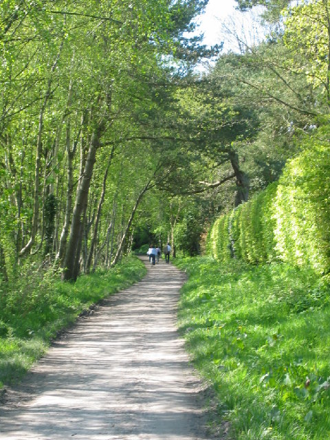 Old Deeside railway line walk, Pitfodels Railway line from Aberdeen to Ballater closed in the 1960's now well used as a footpath and cycle way.